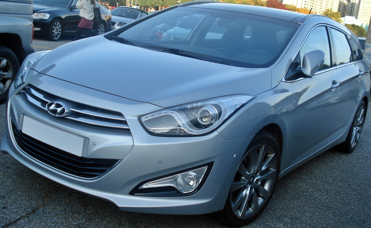 Hyundai i40